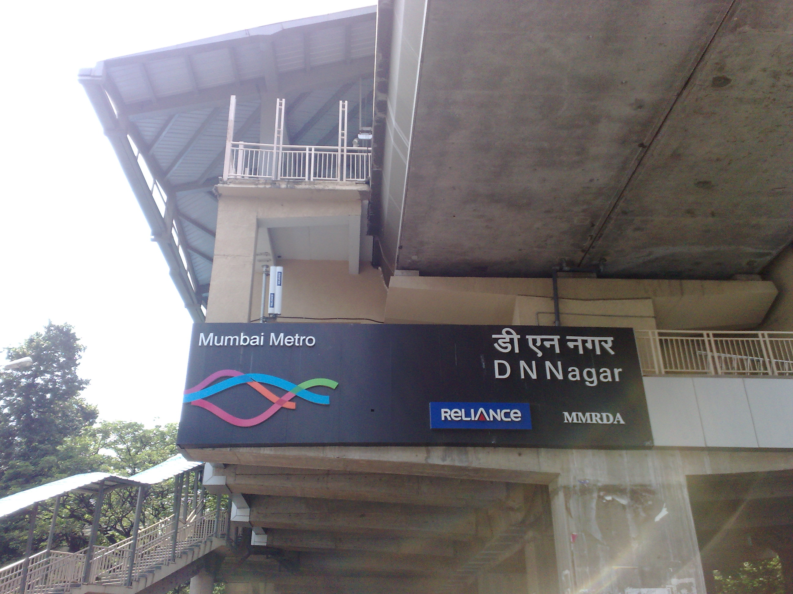 D.N. Nagar Metro Station - Main